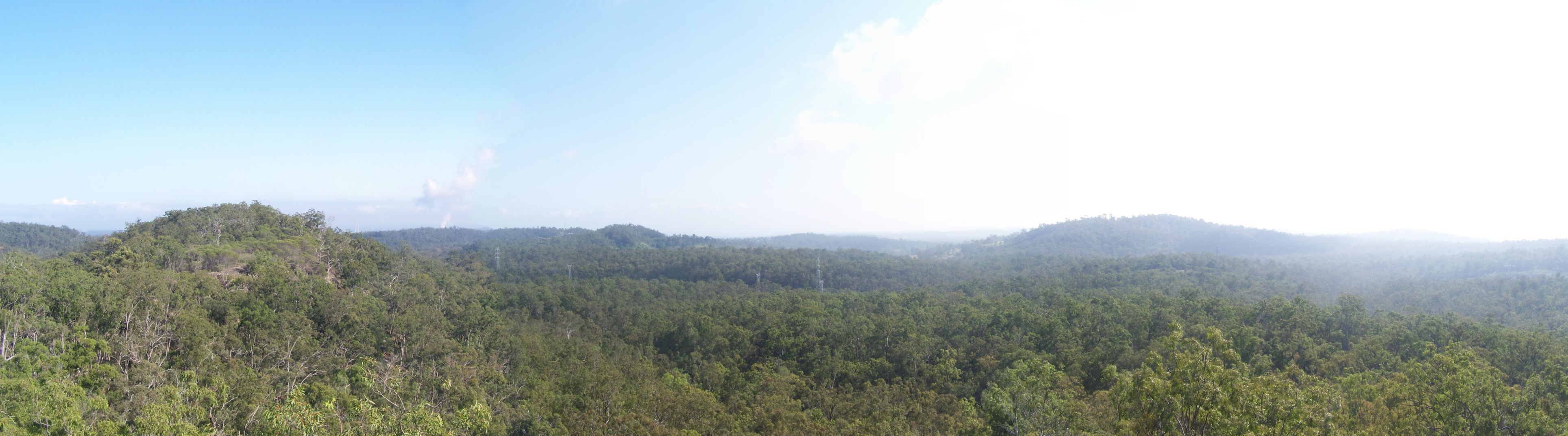 Atop White Rock, looking northwest